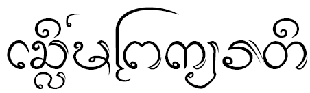 Lanna script – Chaloem Phra Kiat is a district (Amphoe) of Nan Province, northern Thailand.